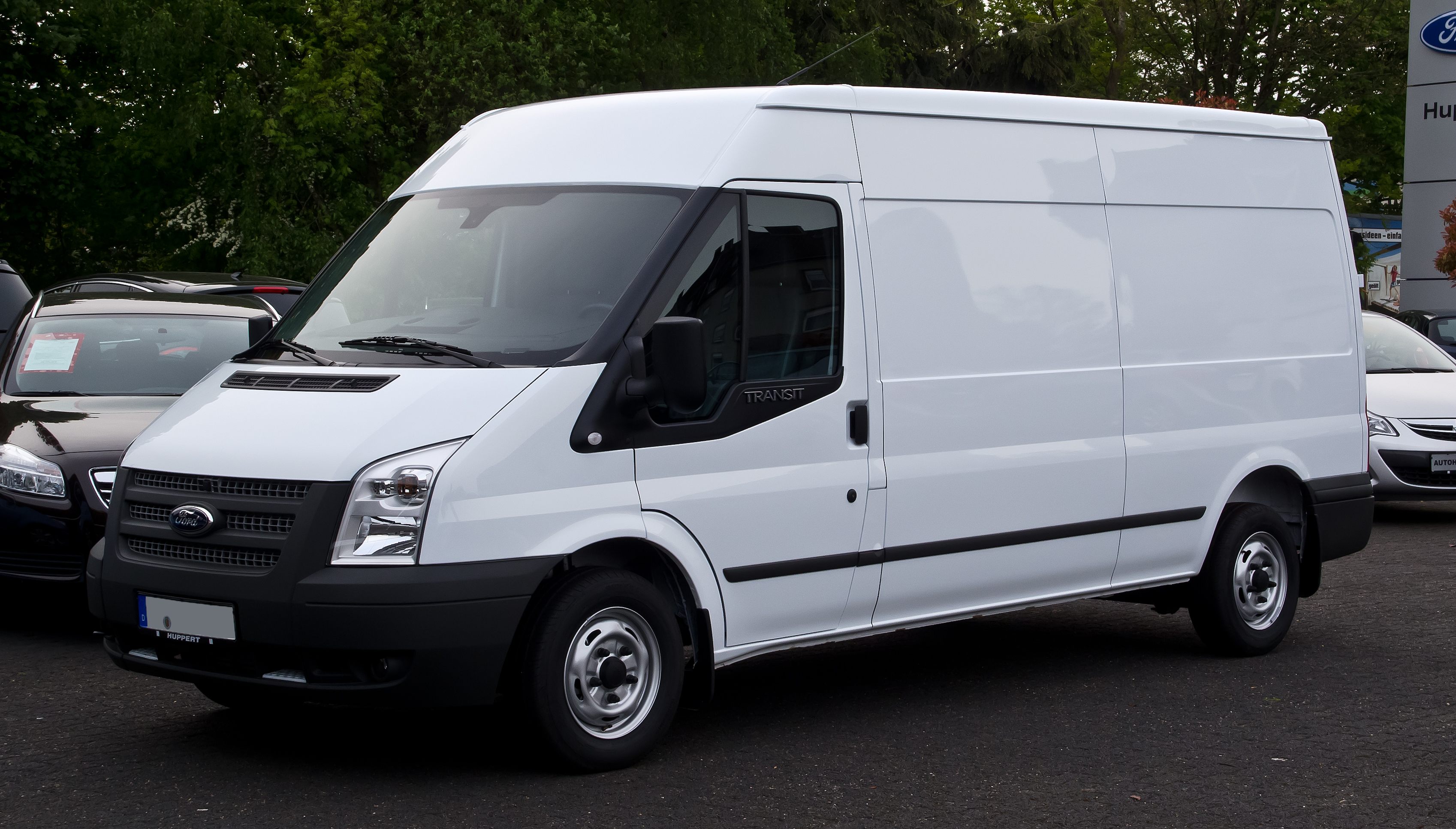 Ford Transit 125 T300 (VI)